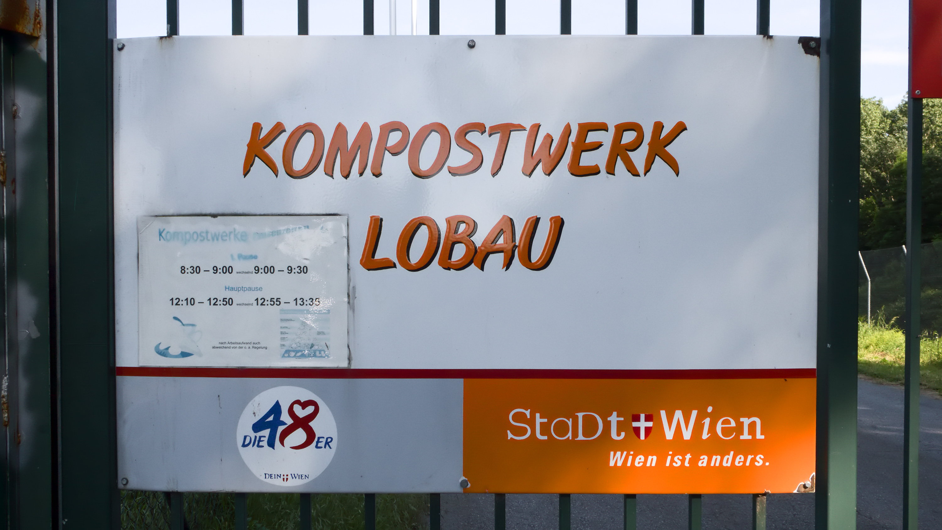 Kompostwerk Lobau in Vienna Donaustadt